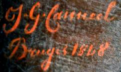 Signature of the art-painter Joseph Canneel on the portrait of Pieter Lansens